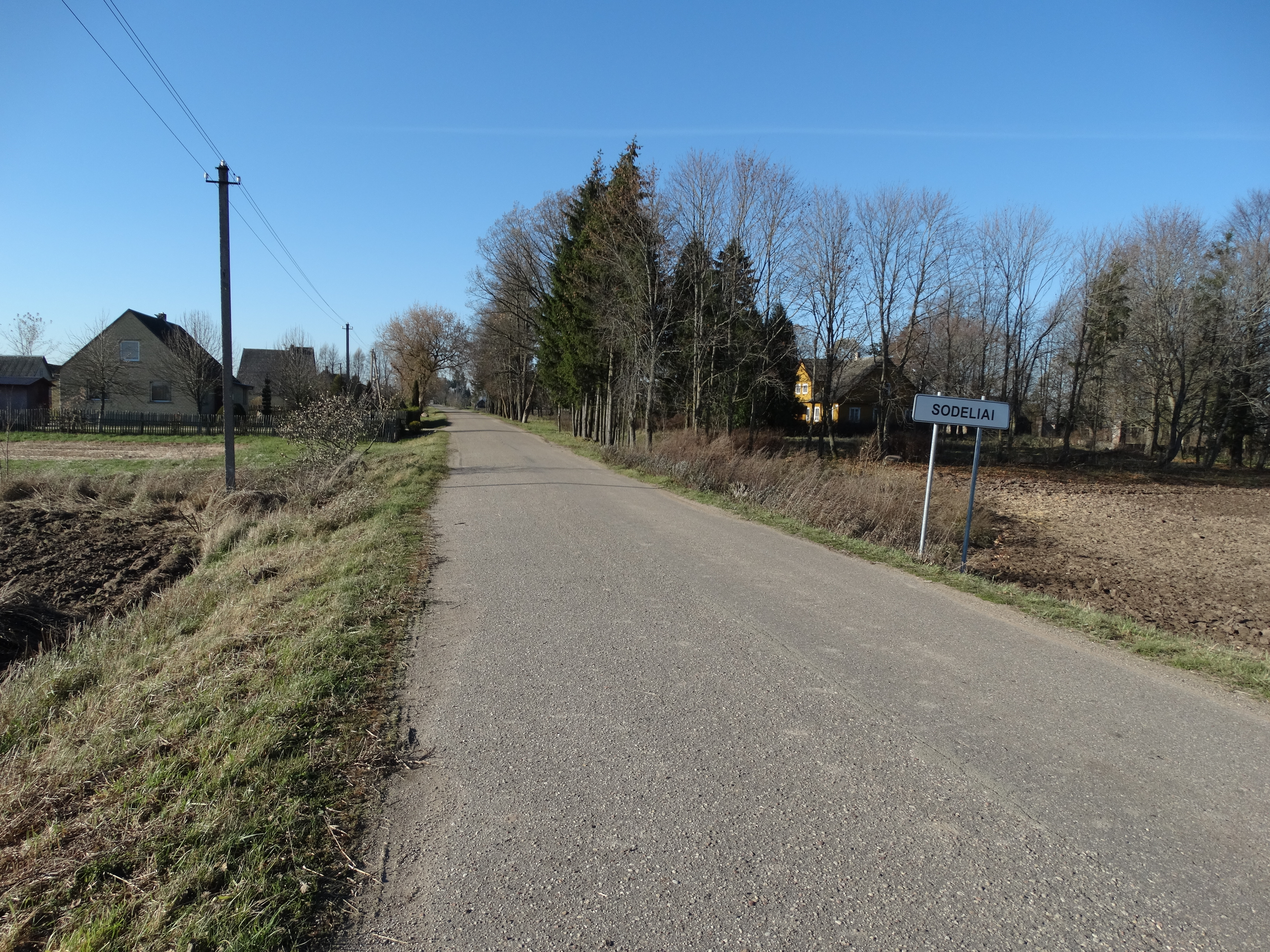 Sodeliai, Panevėžys district, Lithuania